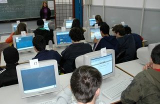 Computer lab in Paraná, Brazil, in 2009